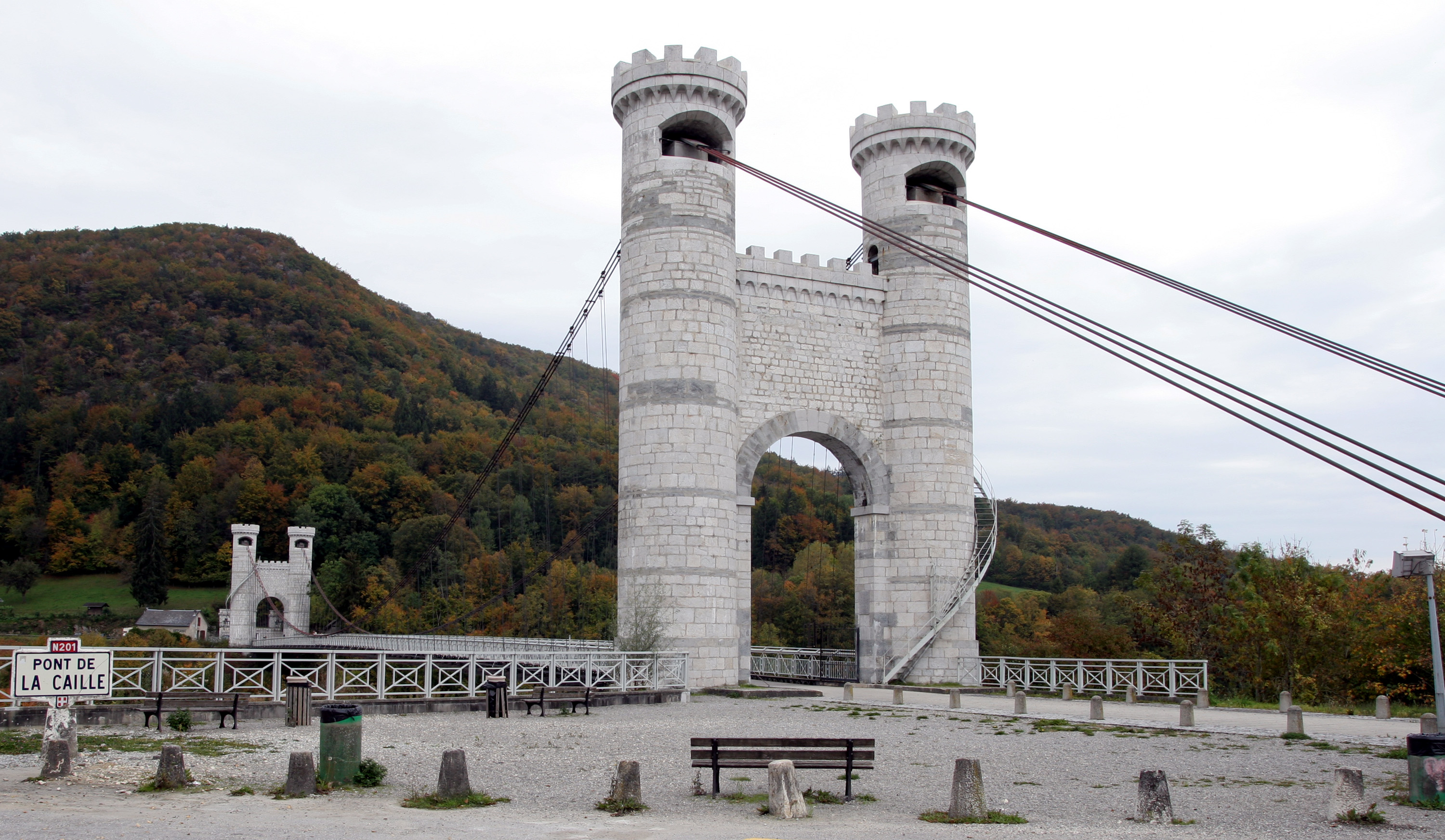 The Pont de la Caille in the French department Haute-Savoie.